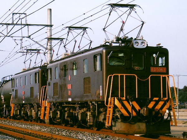 Tobu railway type "ED-5060" electric locomotive. 東武鉄道ED5060型電気機関車。2003年まで存在していた貨物列車牽引時のもの。茂林寺前-川俣間にて撮影。